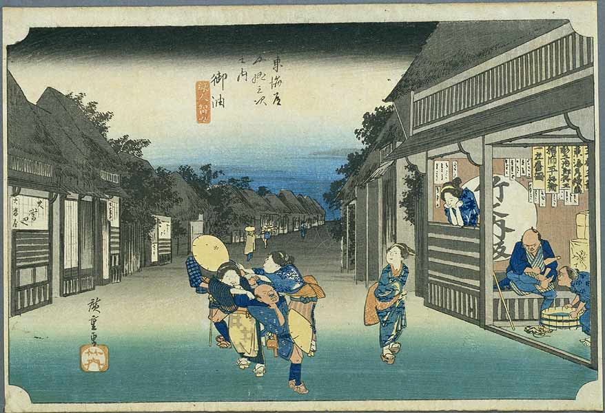 Goyu on the Tokaido, ukiyo-e prints by Hiroshige